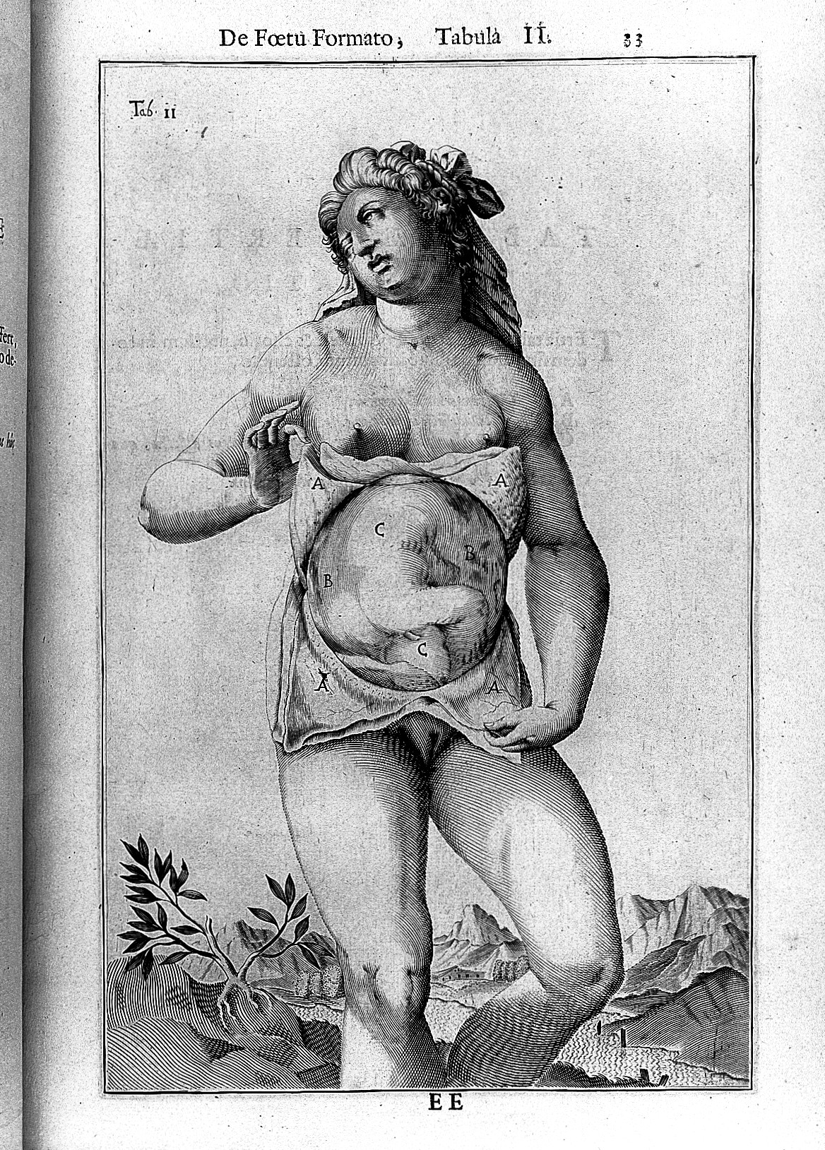 Woman with belly cut open to reveal foetus Rare Books Keywords: Adrianus Spigelius